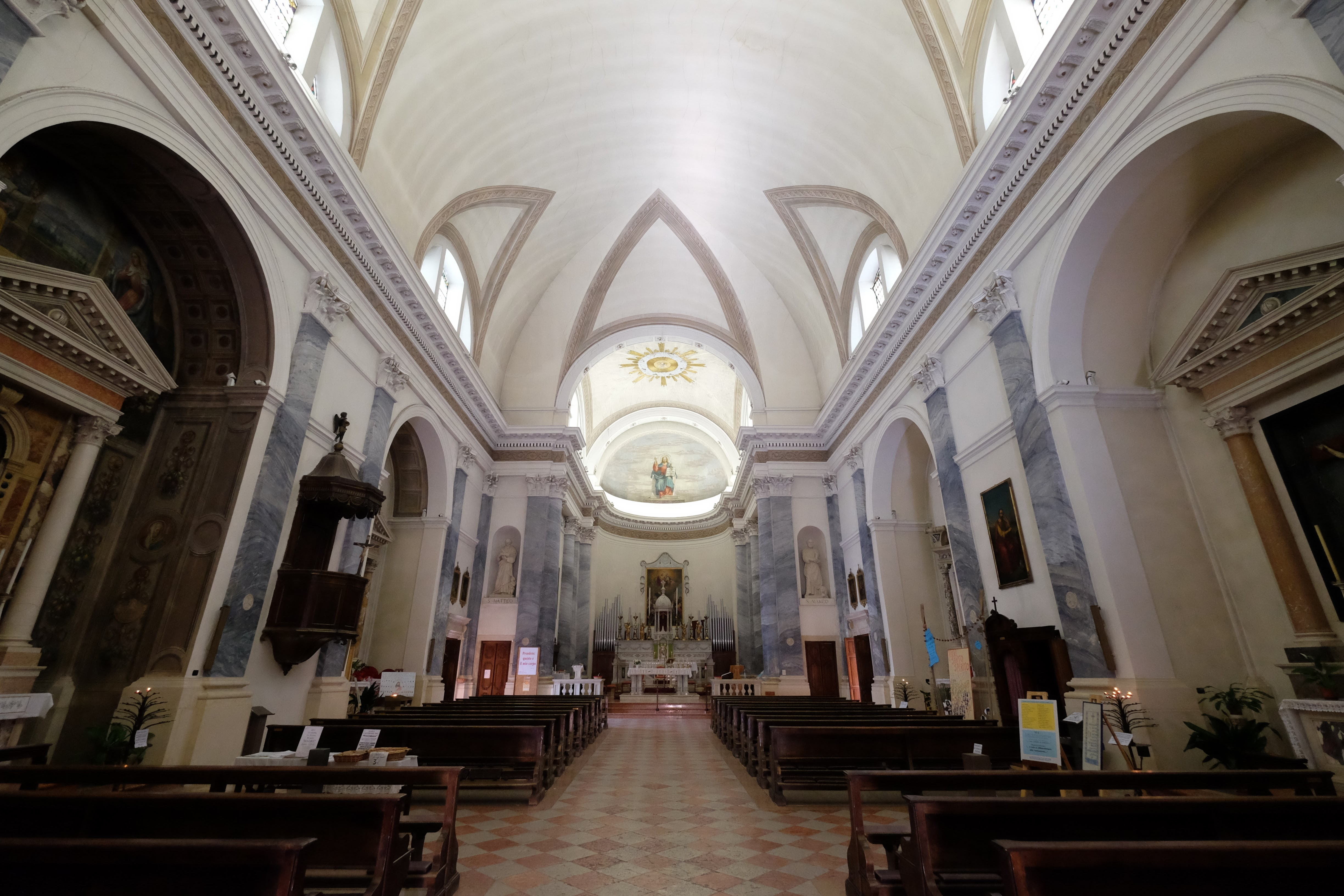 37017 Lazise, Province of Verona, Italy